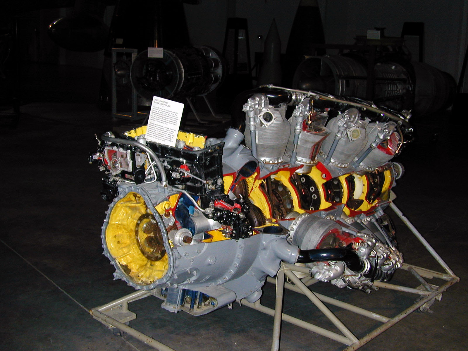 Pratt & Whitney R-4360 Wasp Major Radial Engine